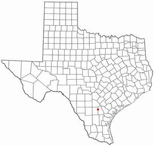 Adapted from Wikipedia's TX county maps